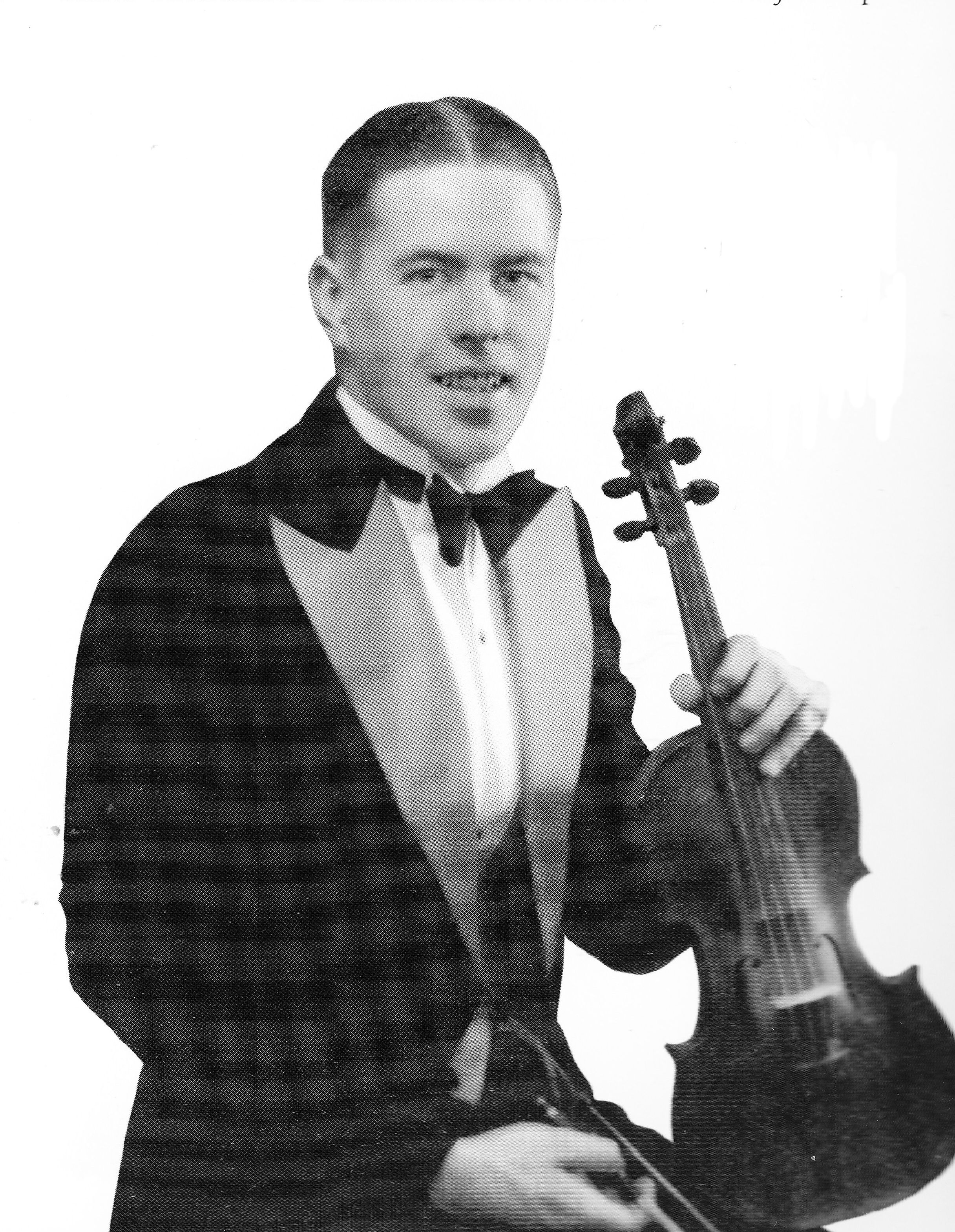 Helge Pahlman